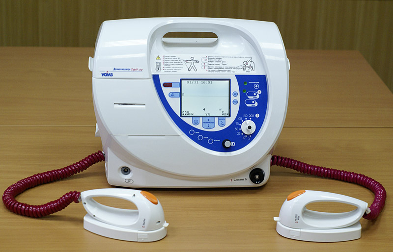 Defibrillator DFR-02 UOMZ produced by Urals Optical-Mechanical Plant (Ekaterinburg, Russia)